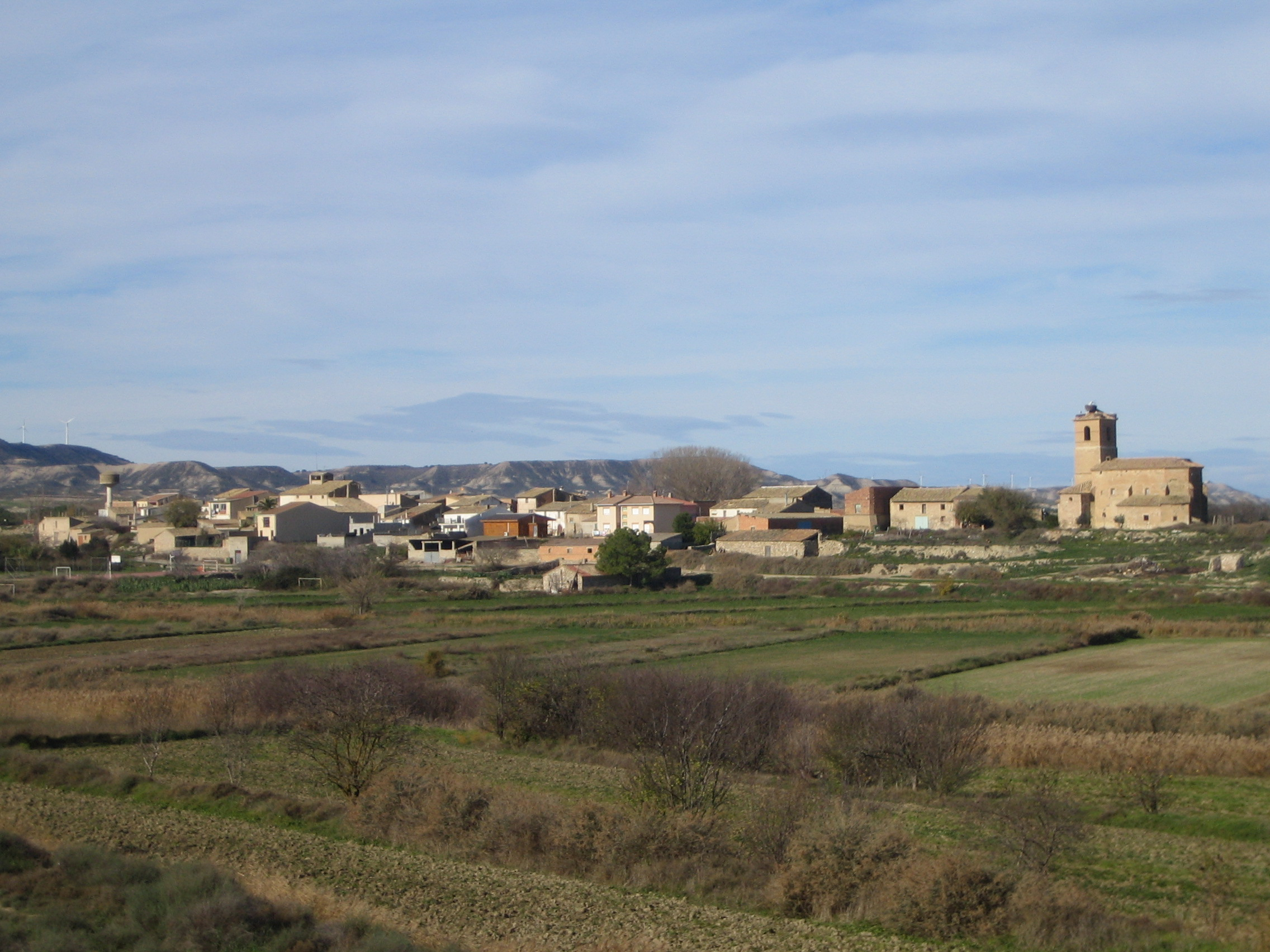 Senes de Alcubierre ,Huesca,Spain